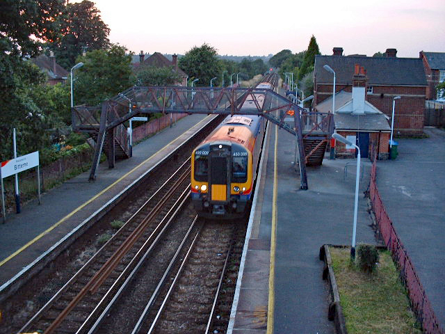 Bitterne Station, Southampton Bitterne Railway Station, on the main Southampton - Portsmouth line. A brand new Desiro train waits for one solitary passenger to alight.